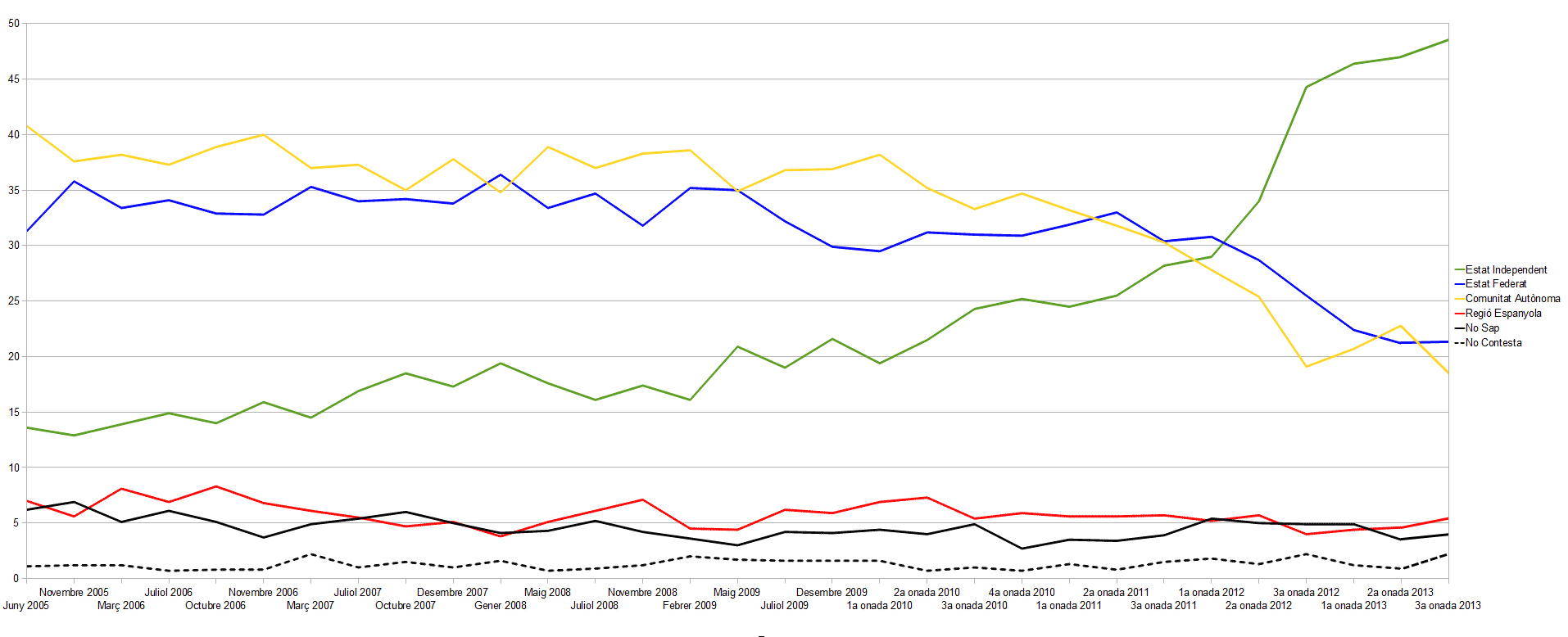 A graphic showing CEO's data concerning a poll about the model of state the catalans want for their nation.